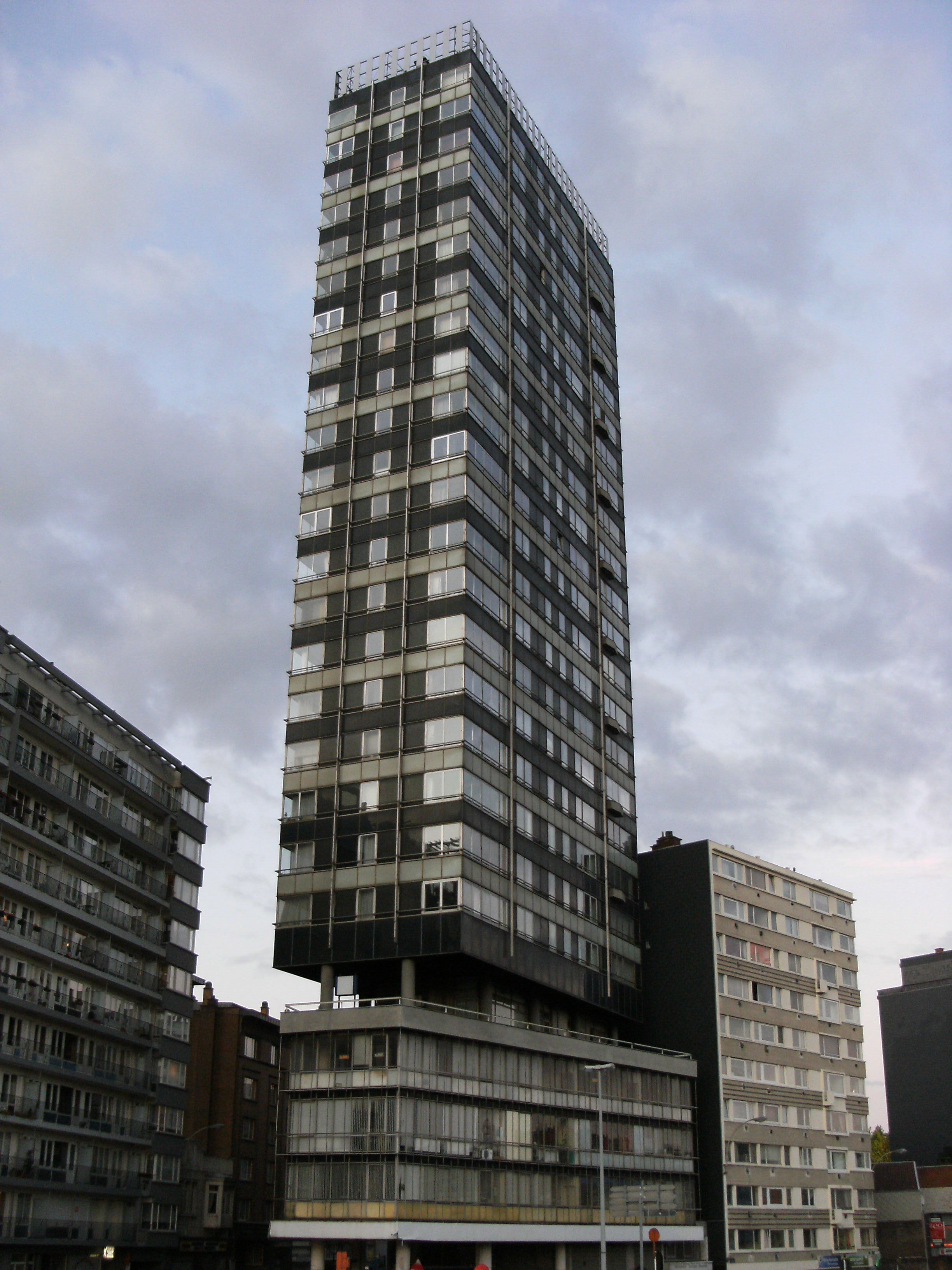 Liege.